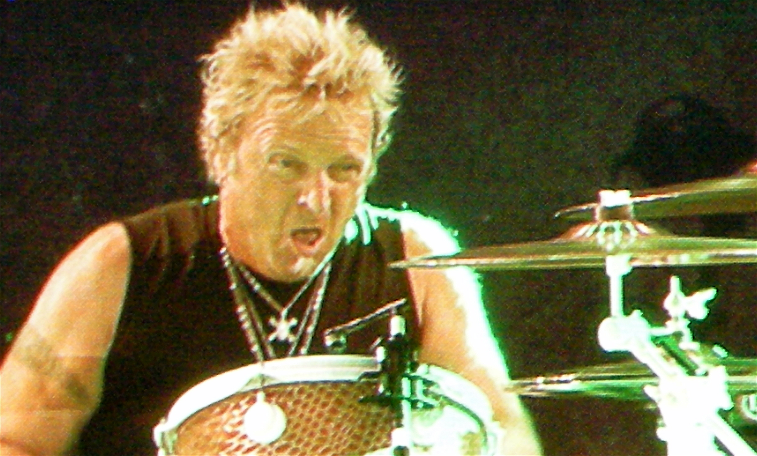 Joey Kramer, the American drummer for the hard rock band Aerosmith